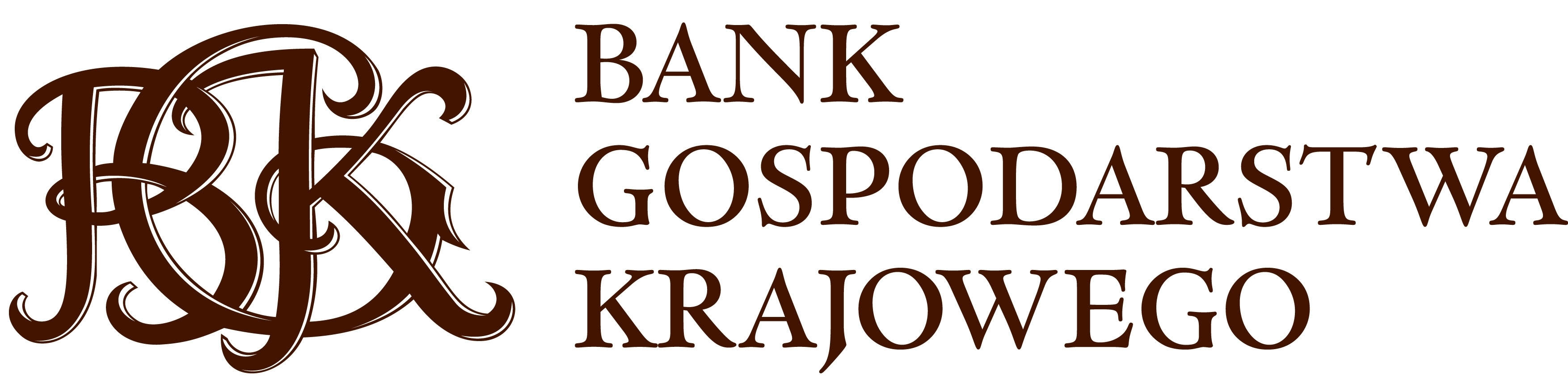 Logo of Bank Gospodarstwa Krajowego (Bank of National Economy) - Poland